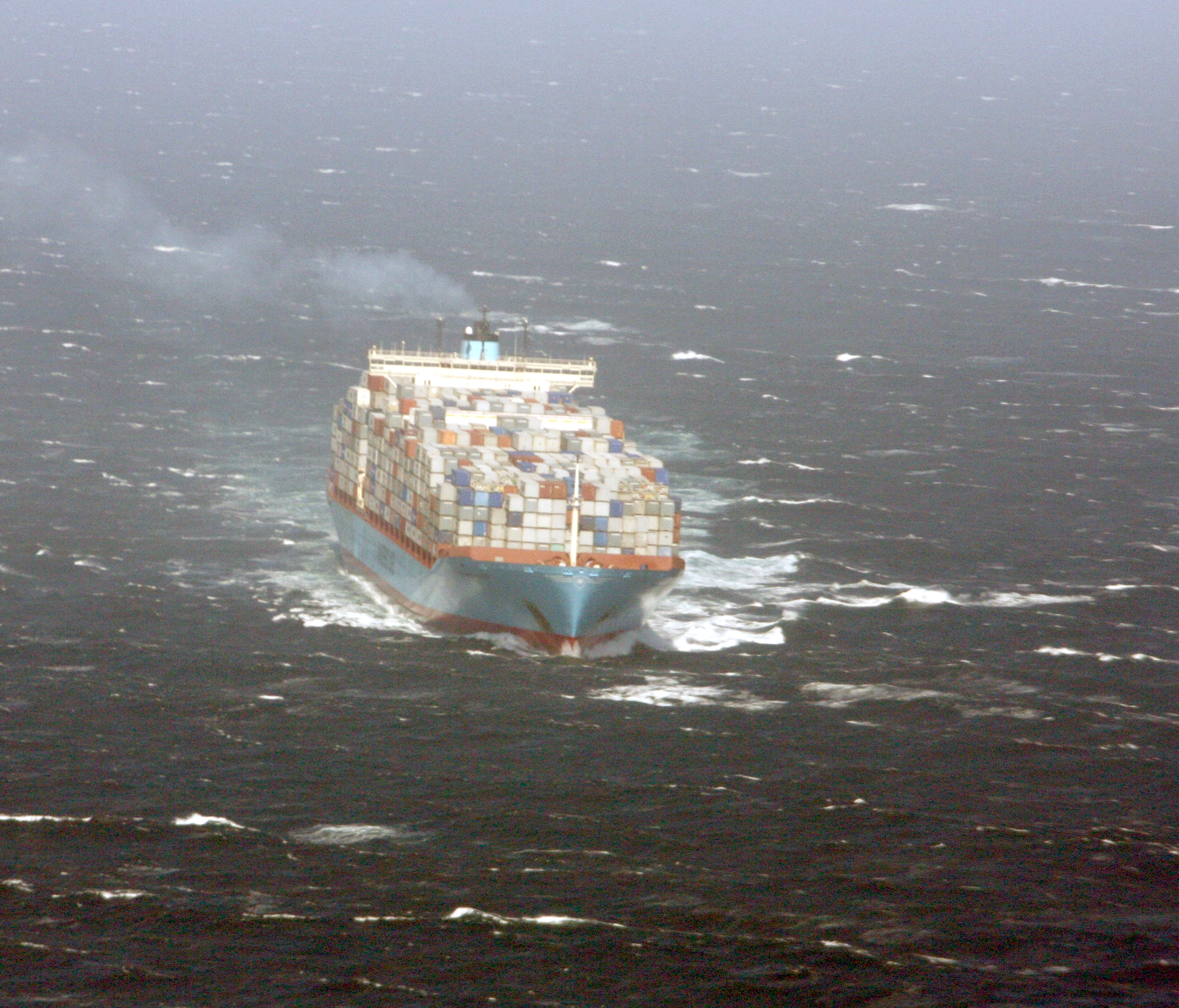 The container ship Margrethe Maersk, operated by the Maersk Line, steams toward California in May 2010. NOAA researchers and collaborators studied the ship's emissions in detail from a research aircraft (from which this photo was taken) and a research ship. The team found that as the container ship shifted to low-sulfur fuels and slowed down near the coast, air pollution emissions plummeted, with some pollutants dropping by as much as 90 percent.